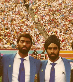 Manjeet and brother Jitender at 1984 LA Olympics. Representing Kenya Hockey Team.